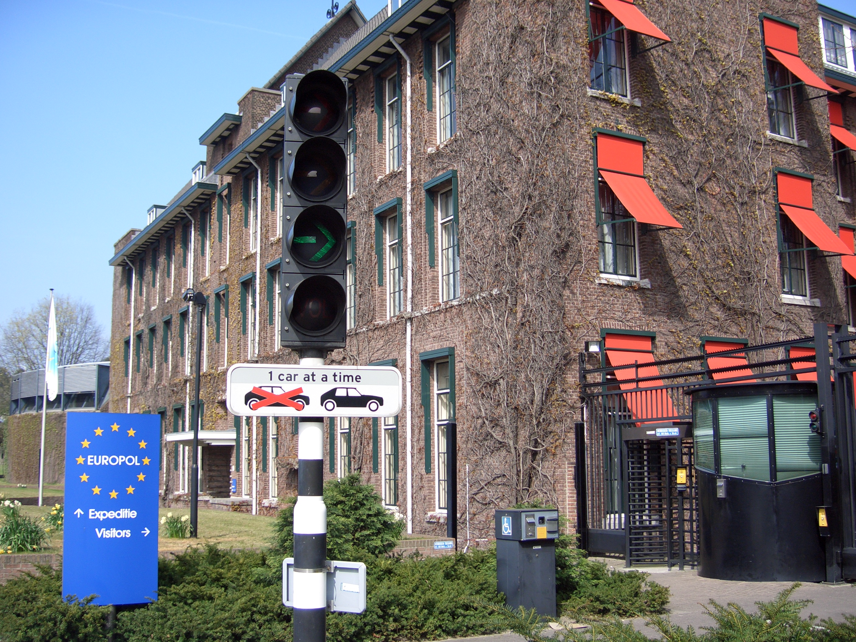 Former Europol Headquarters at at Raamweg 47, The Hague Photographer:user:Dr. Meierhofer Date: 06-Apr-2007